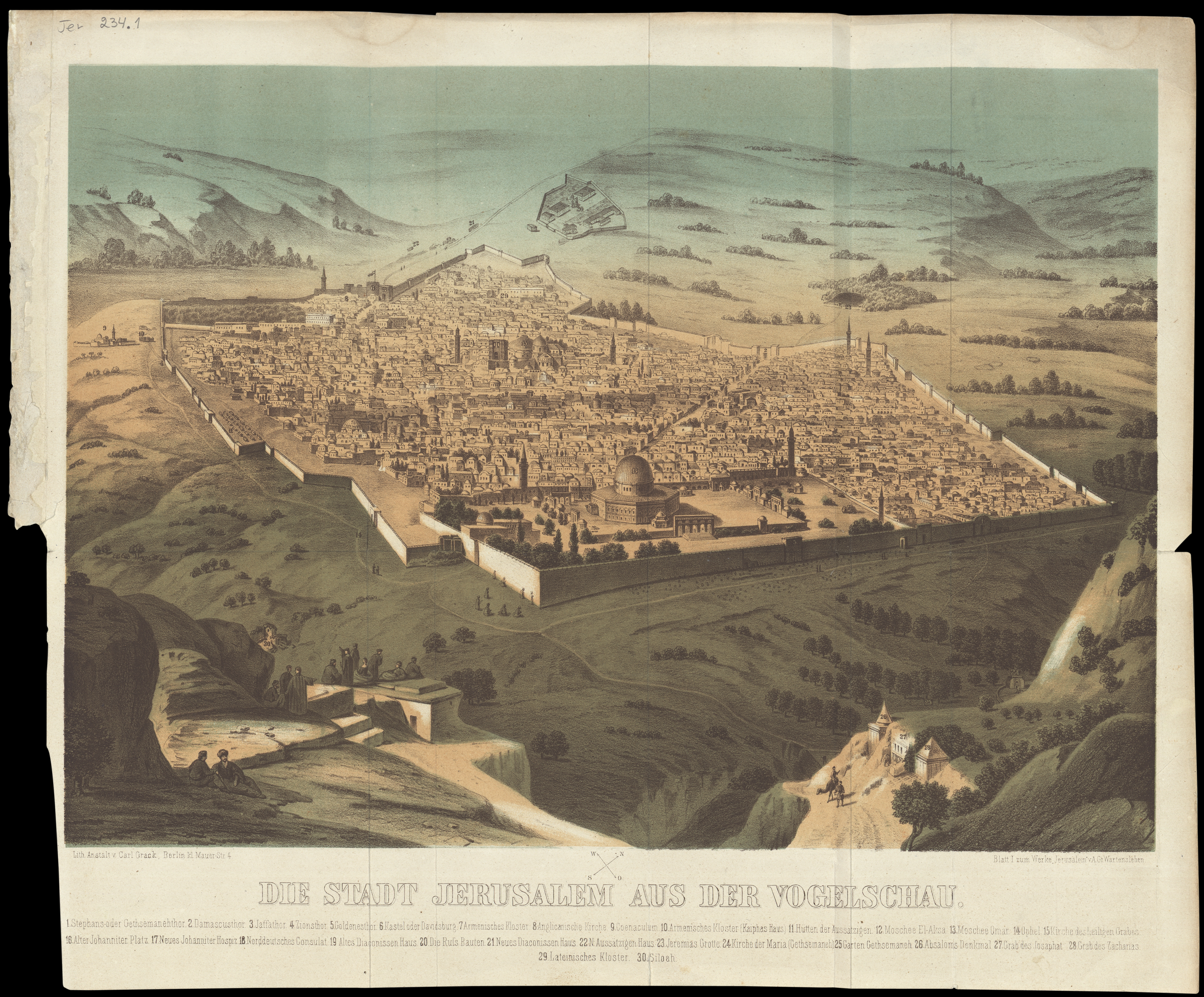 Map of Jerusalem